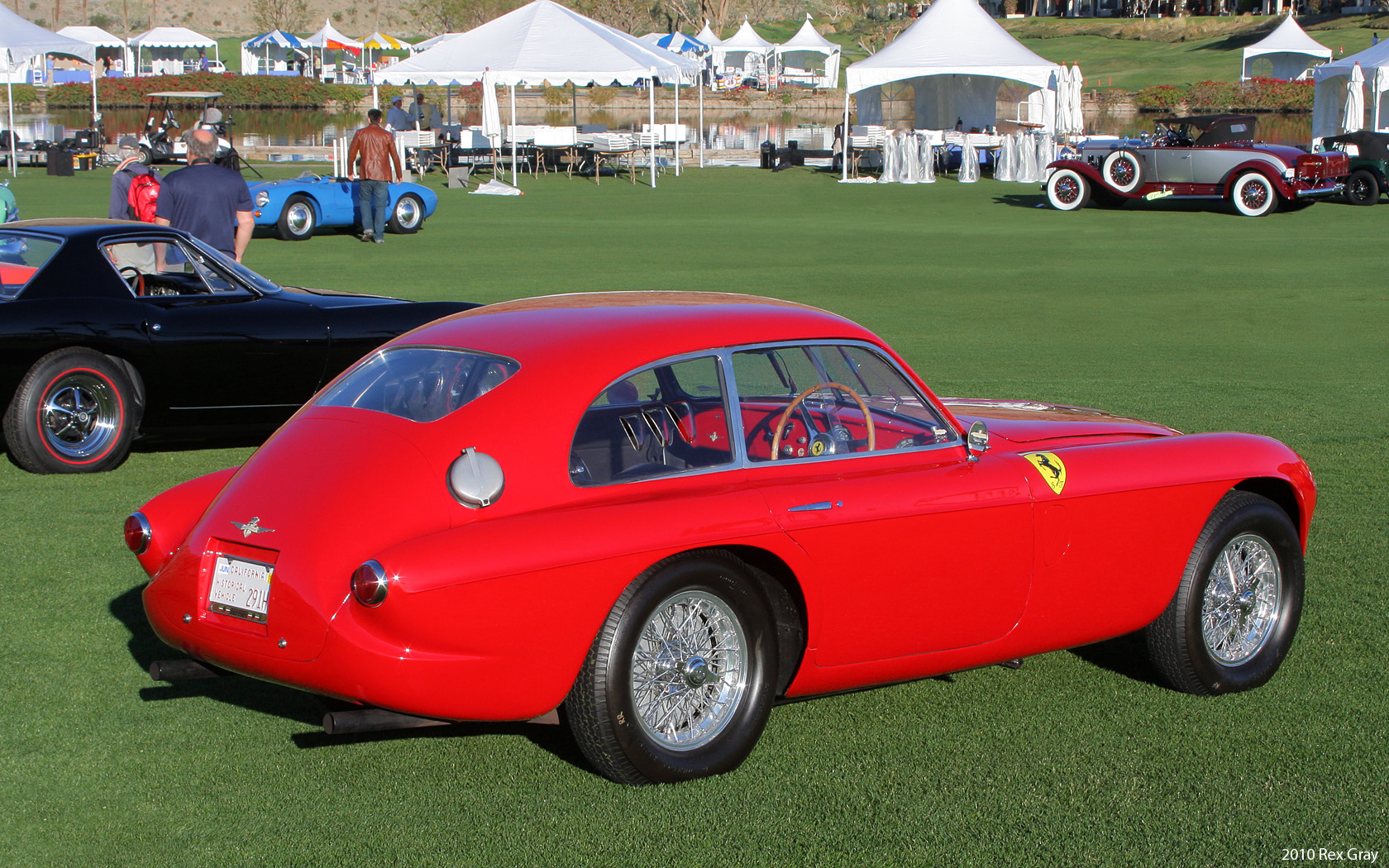 Third Annual Desert Classic Concours d'Elegance, Feb 28 2010